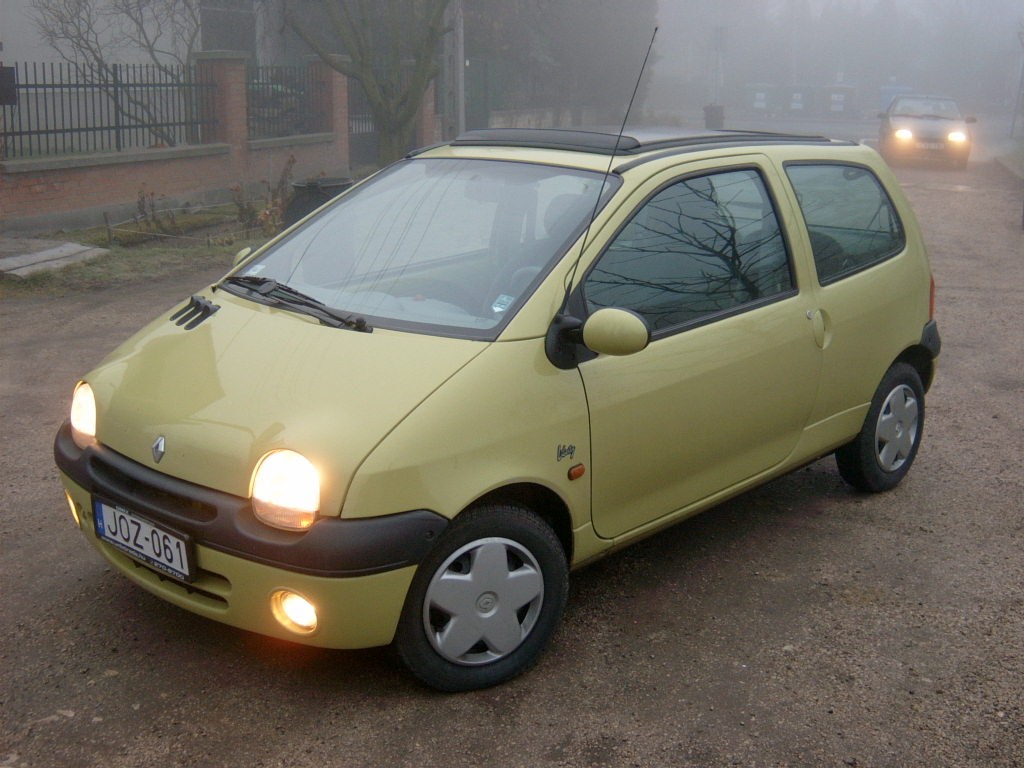 1999 Renault Twingo. (I took this picture myself.)